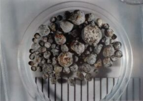 Separated chondrules from the chondrite Bjurböle Released under GNU Free Documentation License.